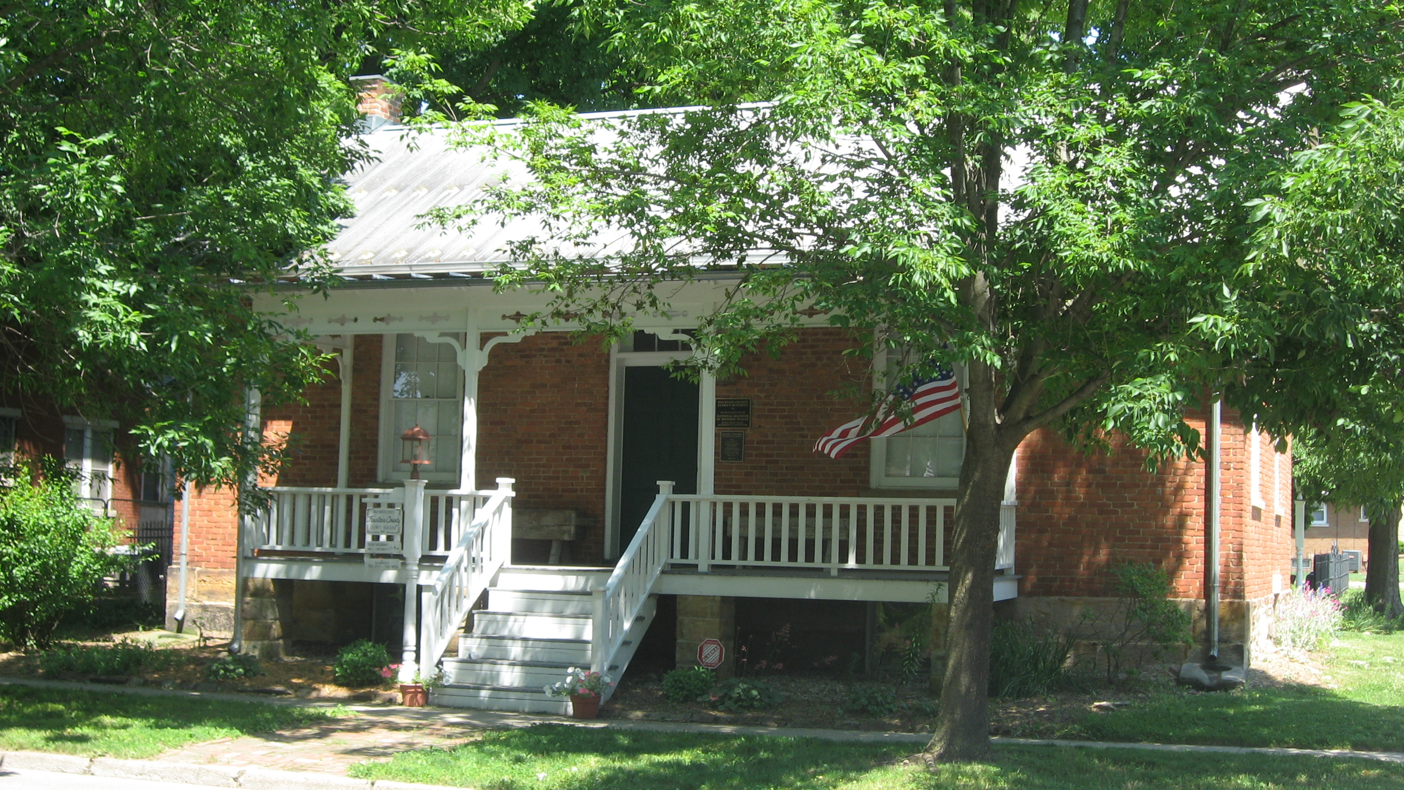 Front and southern end of the Fountain County Clerk's Building, located at 516 Fourth Street in Covington, Indiana, United States. Built in 1859 and since converted to a museum, it is listed on the National Register of Historic Places. At one time, it was Lew Wallace's law office.